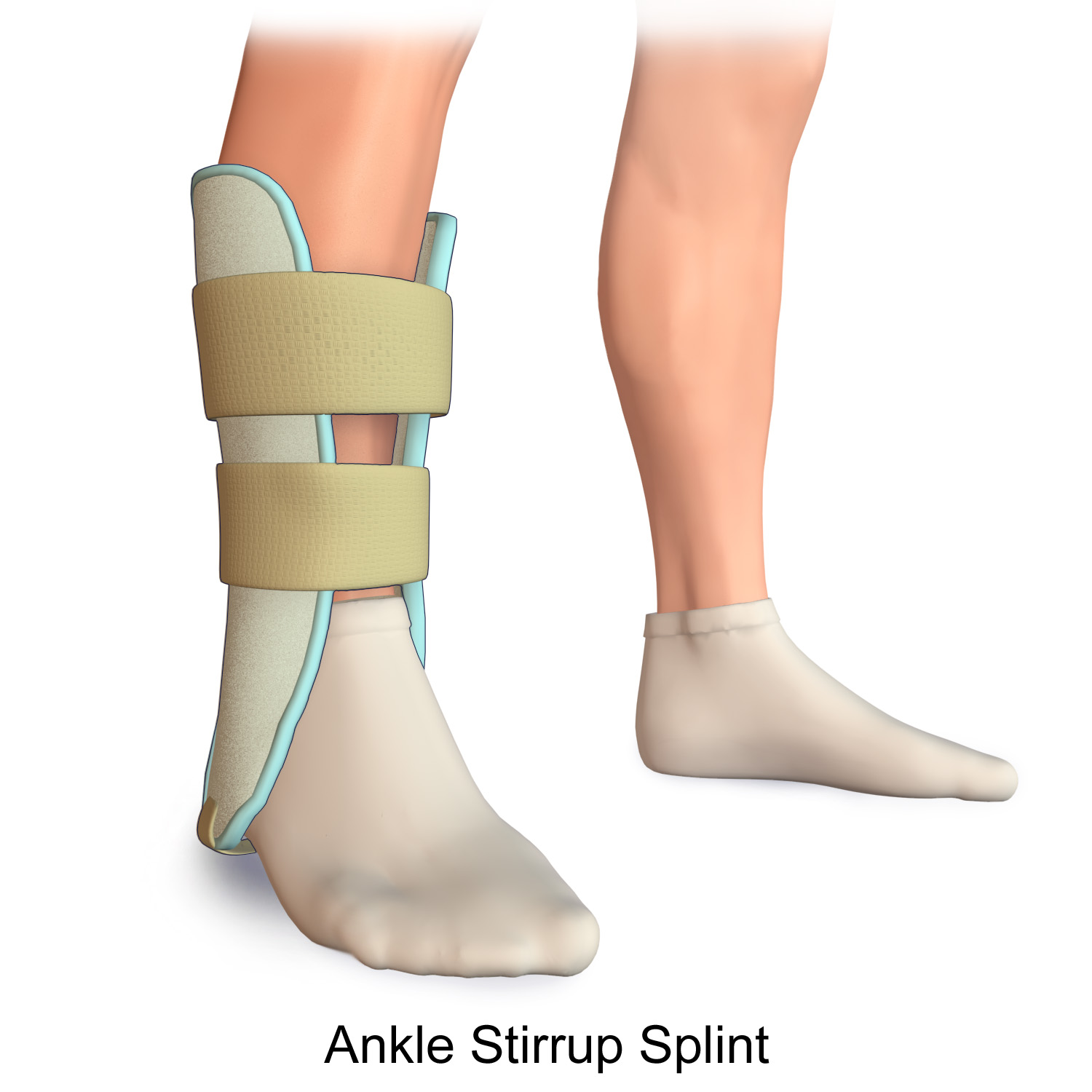 Ankle Stirrup Splint. This image was donated by Blausen Medical. Please visit our website to see more medical illustrations and animations.